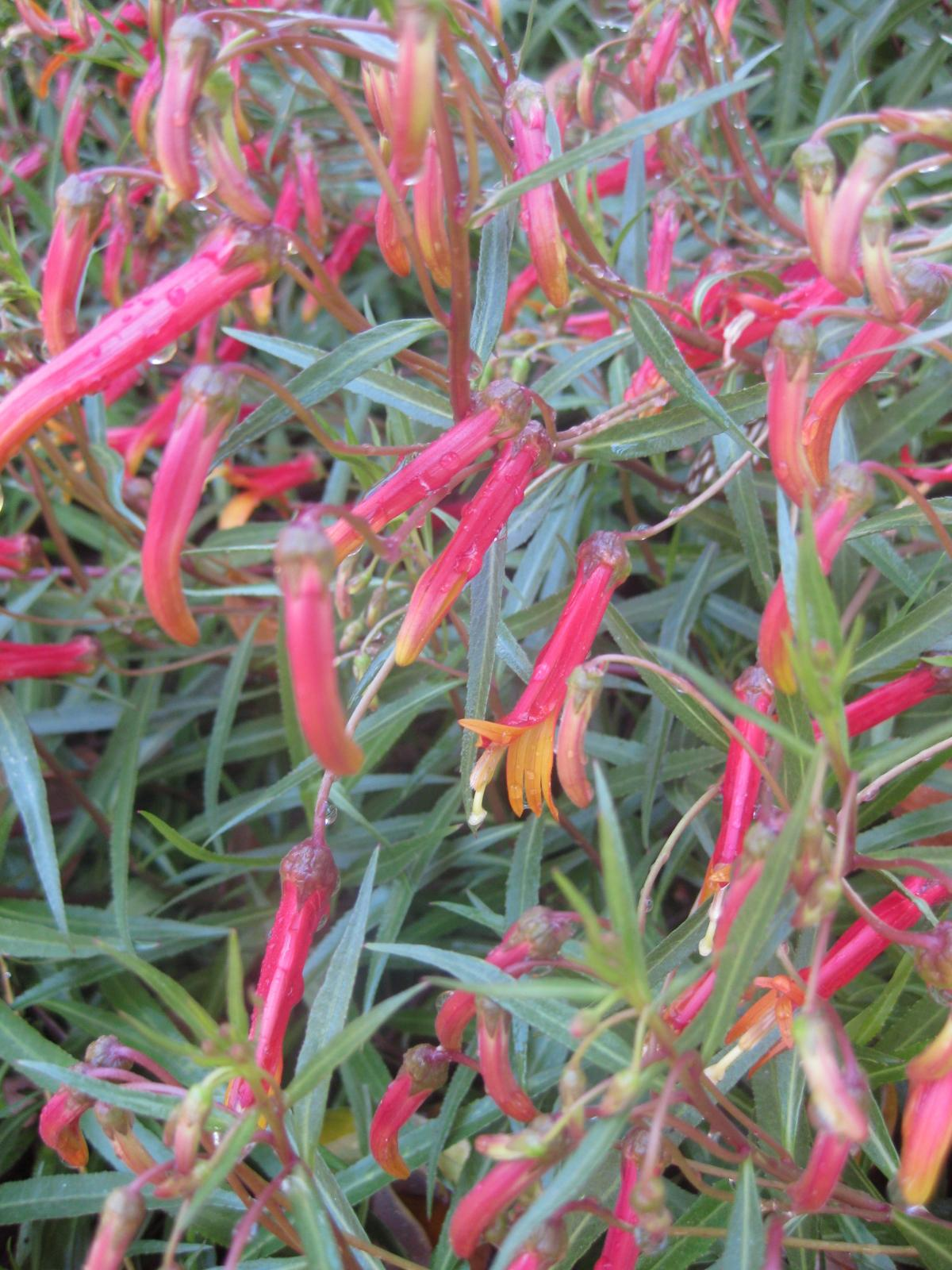 Photographed at Huntington Gardens (Los Angeles) in March